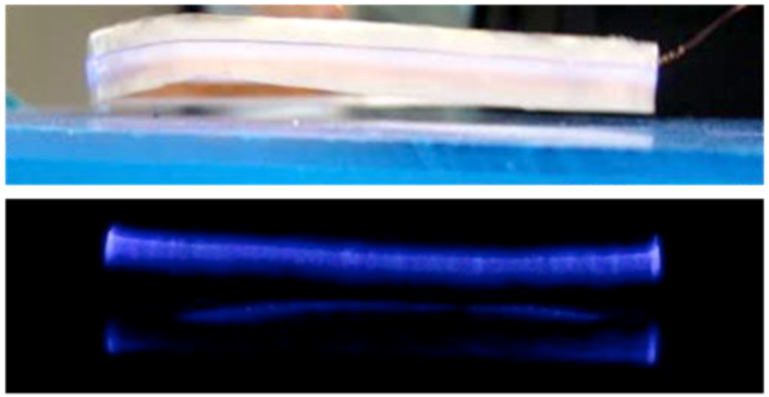 A crude prototype of the WEAV was able to hover a few millimeters above the surface for approximately 3 minutes.